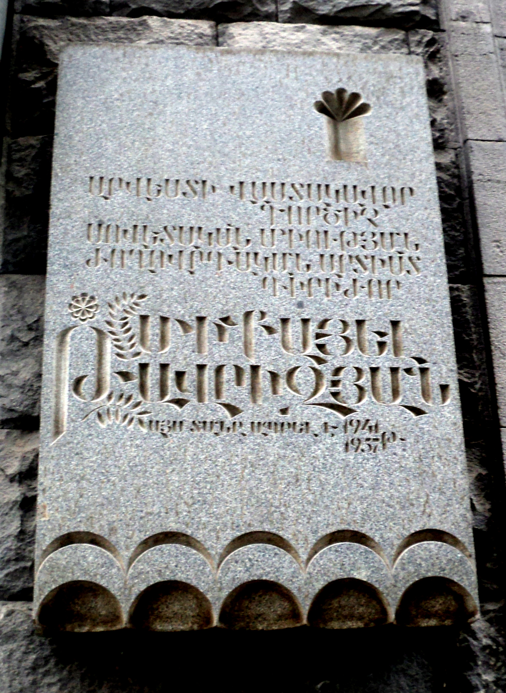 Mikayel Tavrizyan's plaque